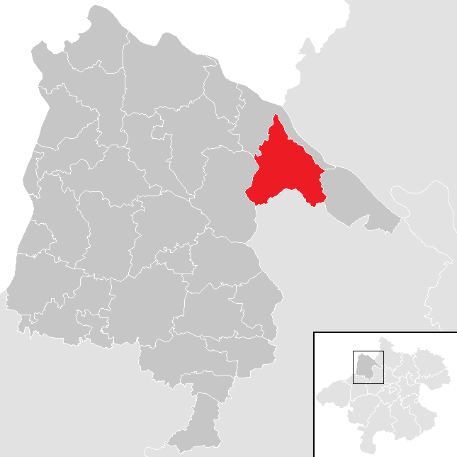 district Schärding